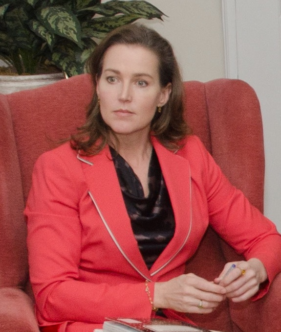 Cylvia Hayes at the U.S. Department of Agriculture headquarters in Washington, D.C., on February 27, 2012.